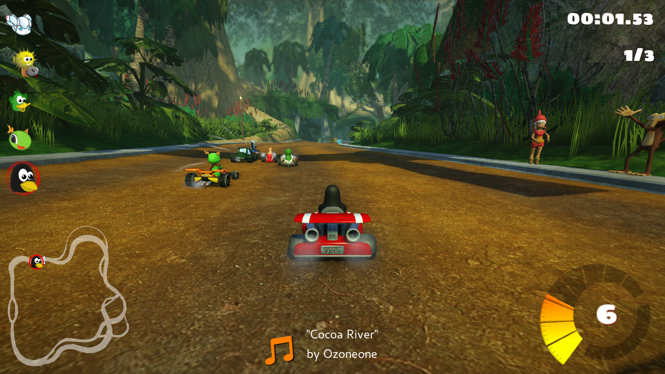 A screenshot of the game SuperTuxKart right after starting a race in the track "Cocoa Temple".